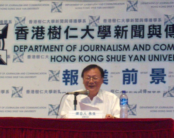 Mr Leung Lap Yan, who is currently the President of the Sing Pao Daily News, at General Assembly of Journalism & Communication Department, Hong Kong Shue Yan University.